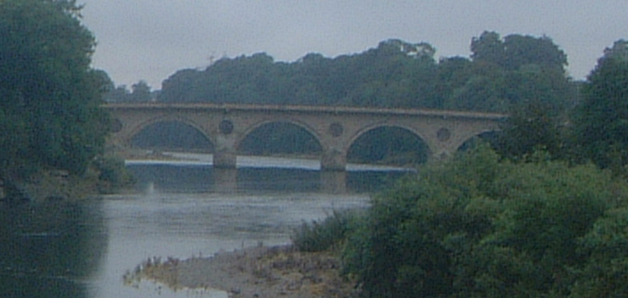 Personal Photograph taken by Mick Knapton on 24th August 2004.